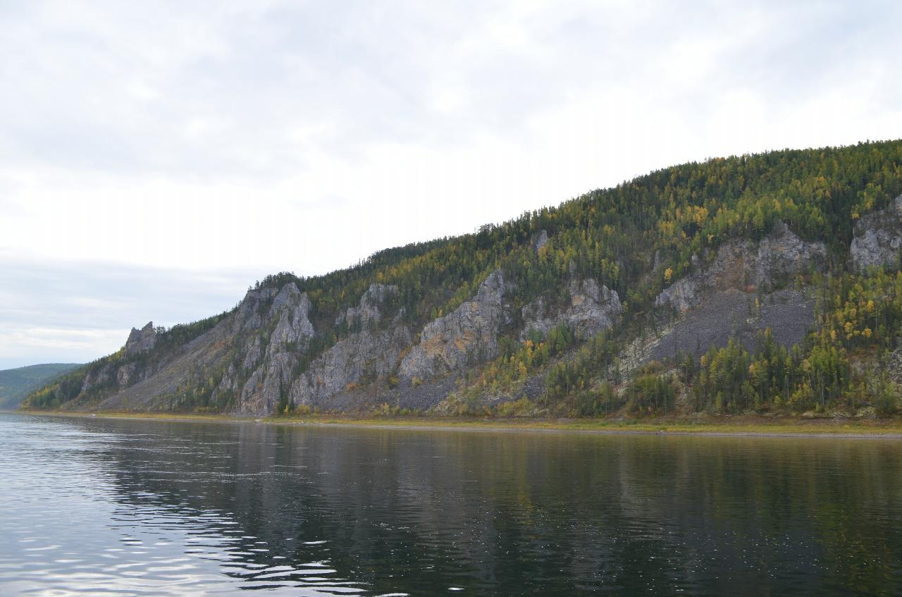 This photos are made during cruise Yakutsk — Lеnskiye Shchyoki, Lena Cheeks — Yakutsk (with arrival in Mirny), 05.09−17.09.2016